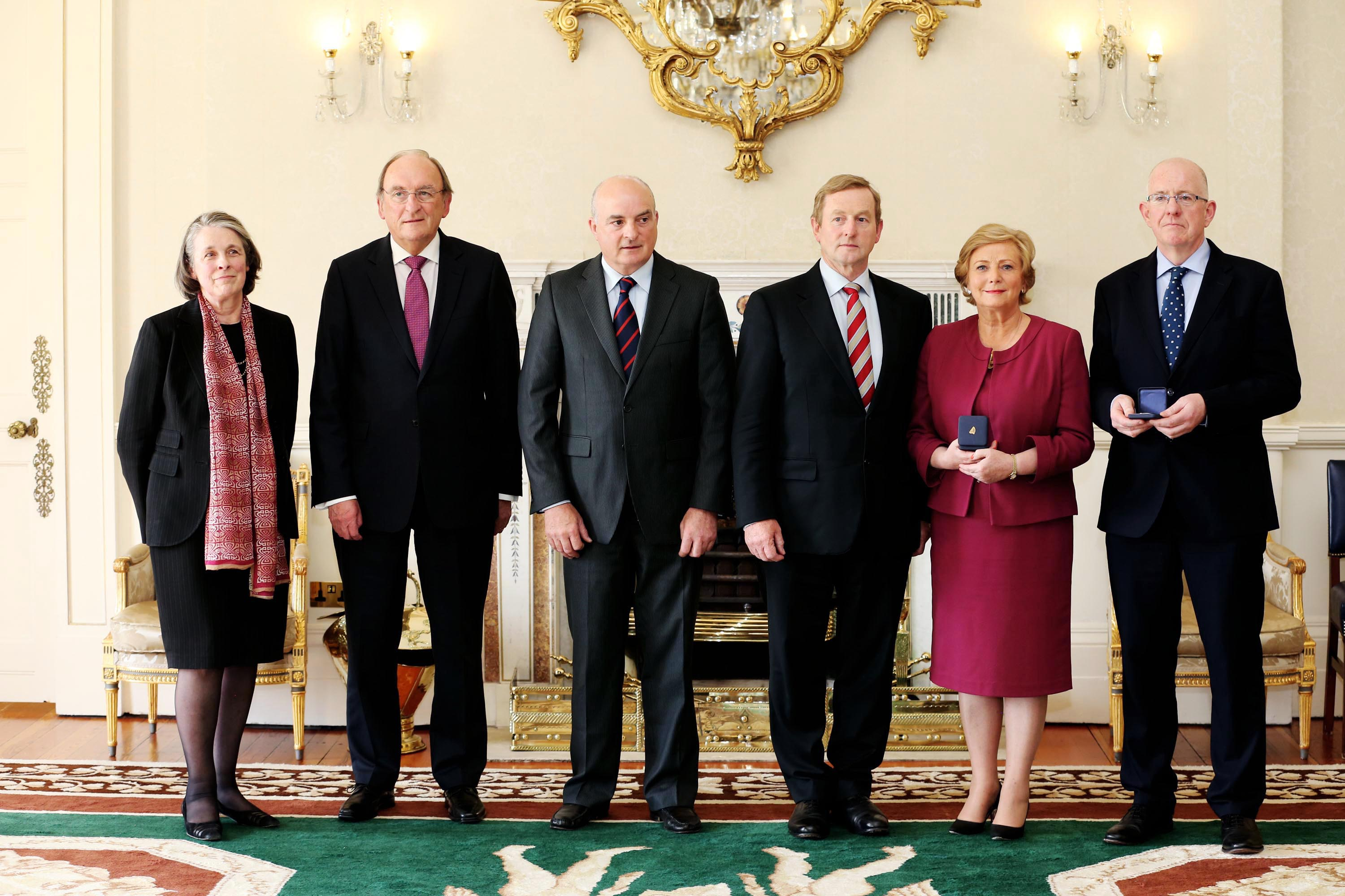 Chief Justice Susan Denham, Ceann Comhairle Seán Barrett, Seanad Cathaoirleach Paddy Burke, Taoiseach Enda Kenny, with new ministers Frances Fitzgerald (Justice) and Charles Flanagan (children) receiving their seals of office at Áras an Uachtaráin, 8 May 2014.